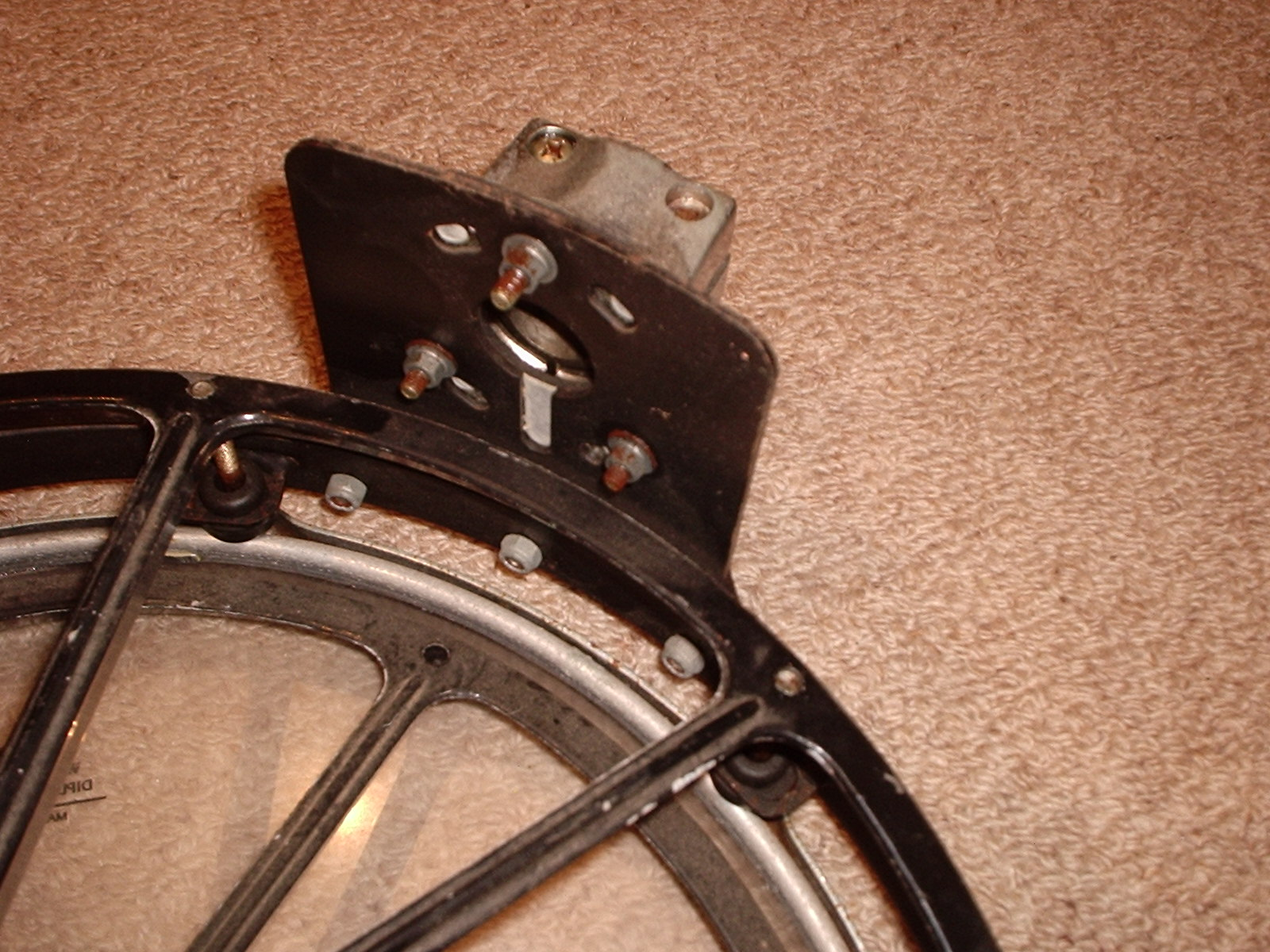 Detail of RIMS mount, see File:RIMS 1.JPG for more information